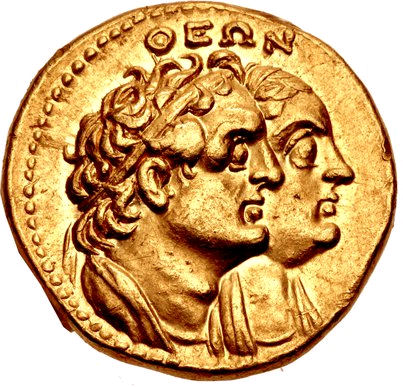 Ptolemy I and Berenike I